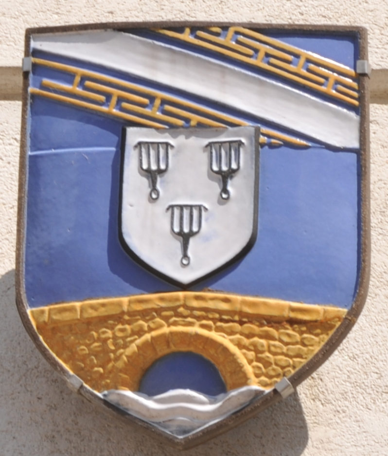 arms of Pont-sur-Seine